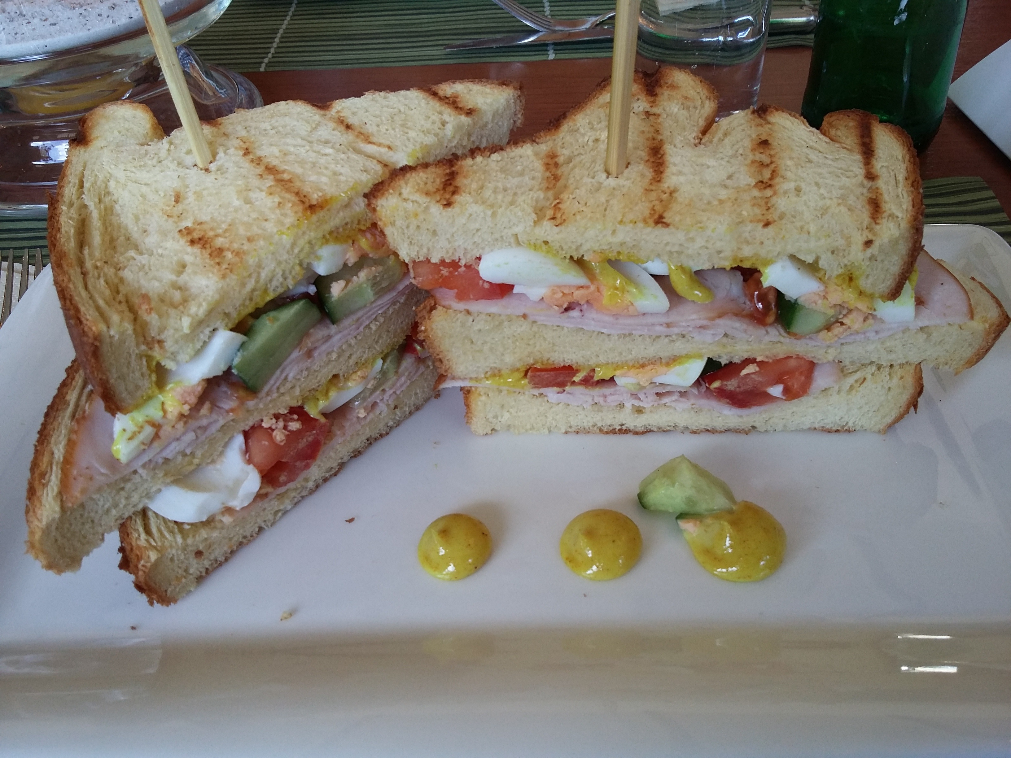 Club Sandwich